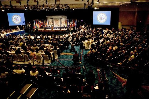 President George W. Bush addresses the Organization of American States General Assembly Monday, June 6, 2005, in Ft. Lauderdale, Fla.